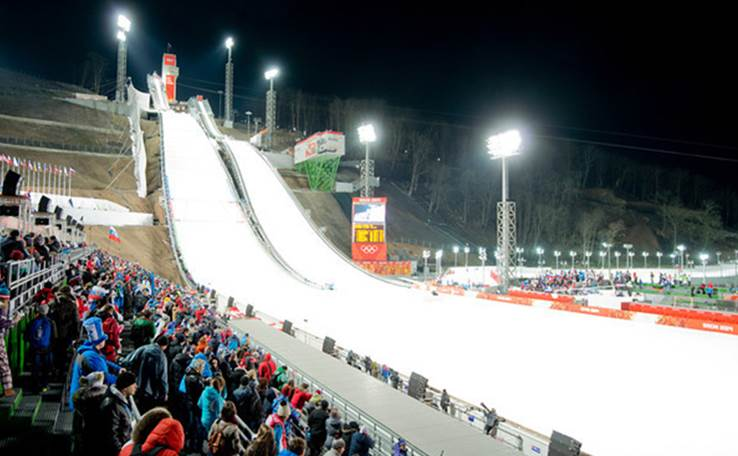 The Sochi Ski Jumping venue